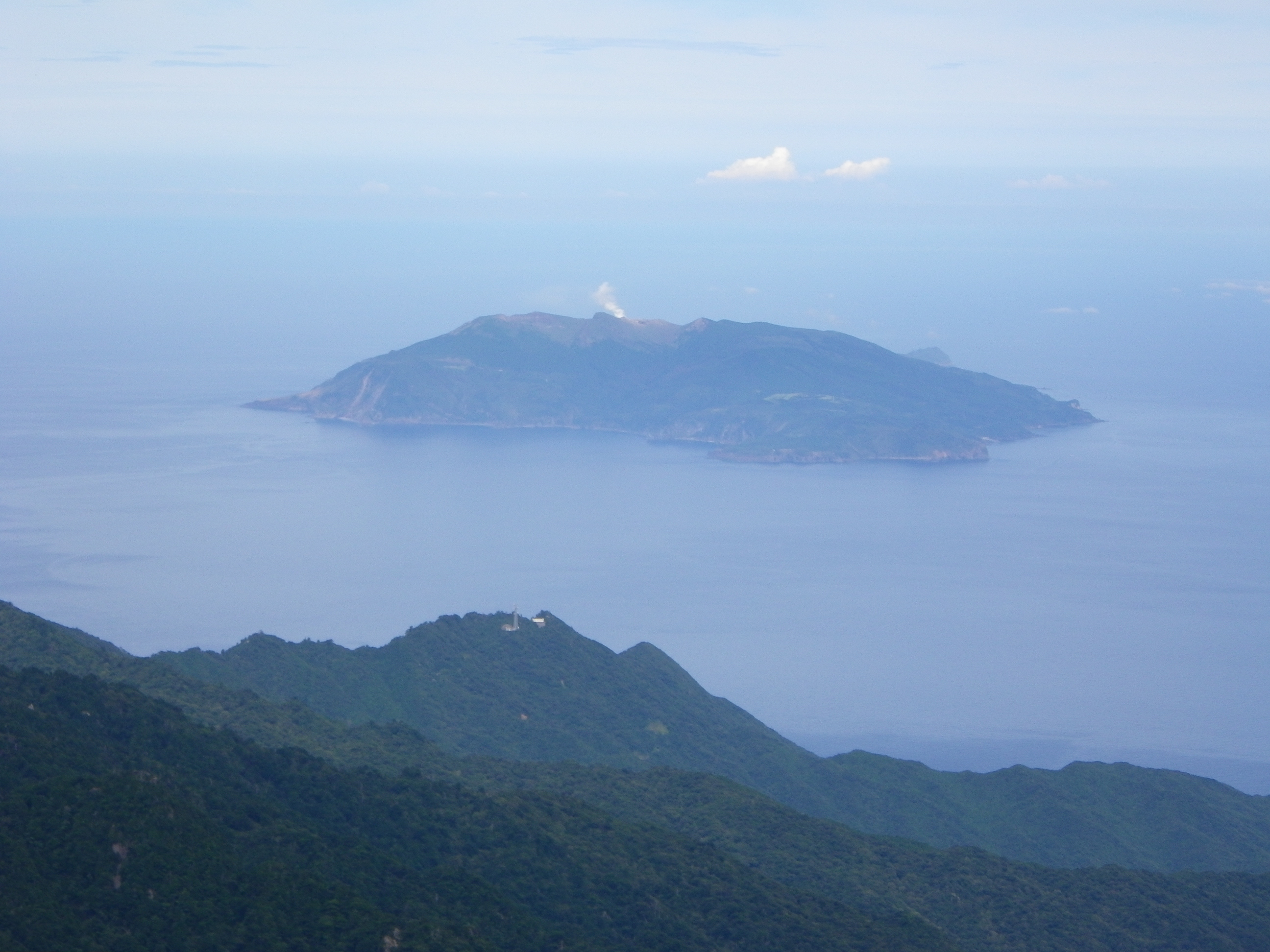 Kuchinoerabujima island from Mt.Nagatadake